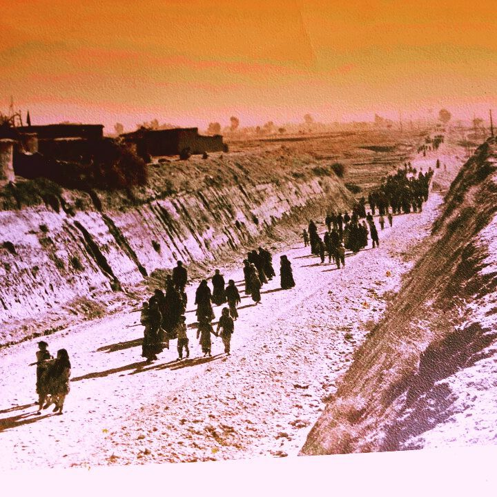 historic photo of choram city, 1976